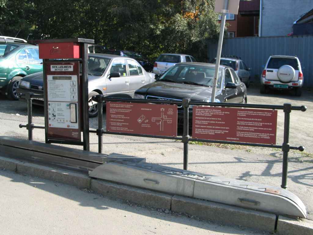 Bicycle lift in Trondheim